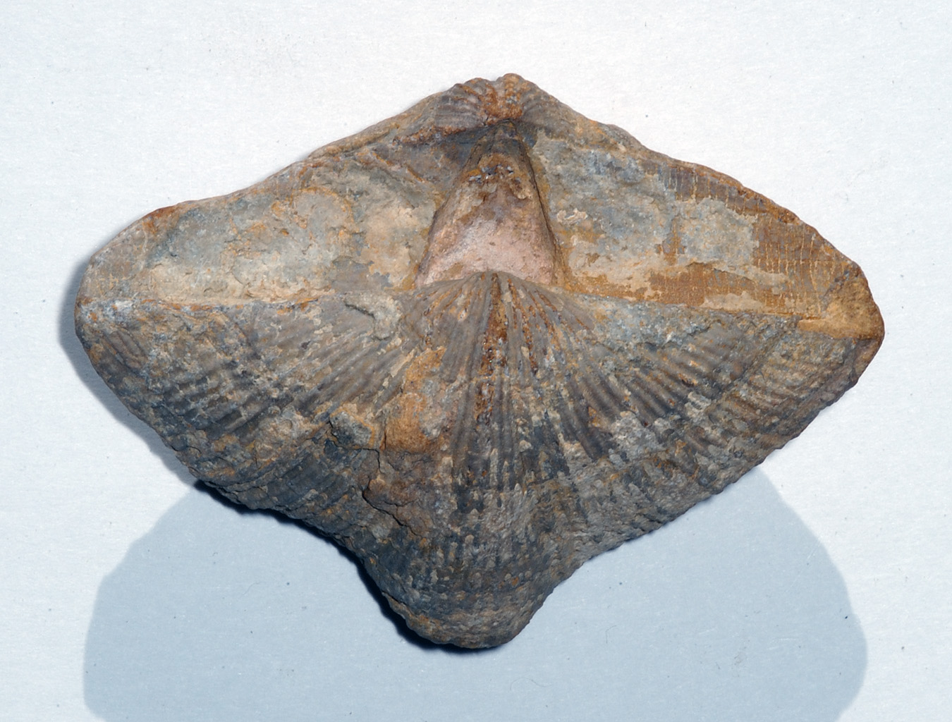 Neospirifer condor Carboniferous brachiopod, Locality- Coppinota Province, Cochabamba Department, Bolivia. Matrix free specimen measuring 7 cm (2.7") across.